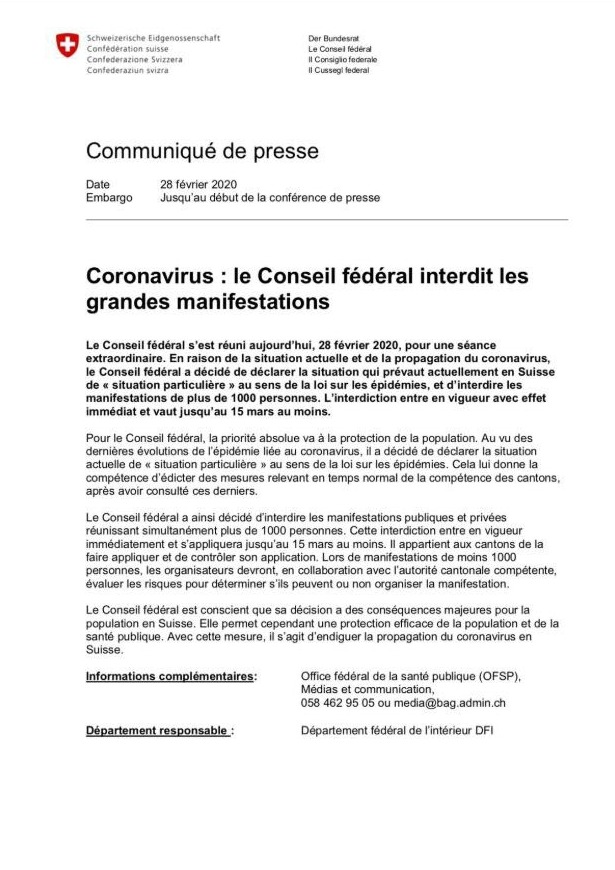 Press release of the Swiss Federal Council (in French), "Coronavirus: Federal Council bans large-scale events", 28 February 2020.